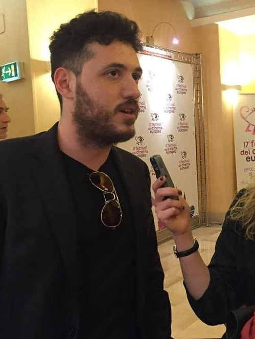 FedericoMudoni